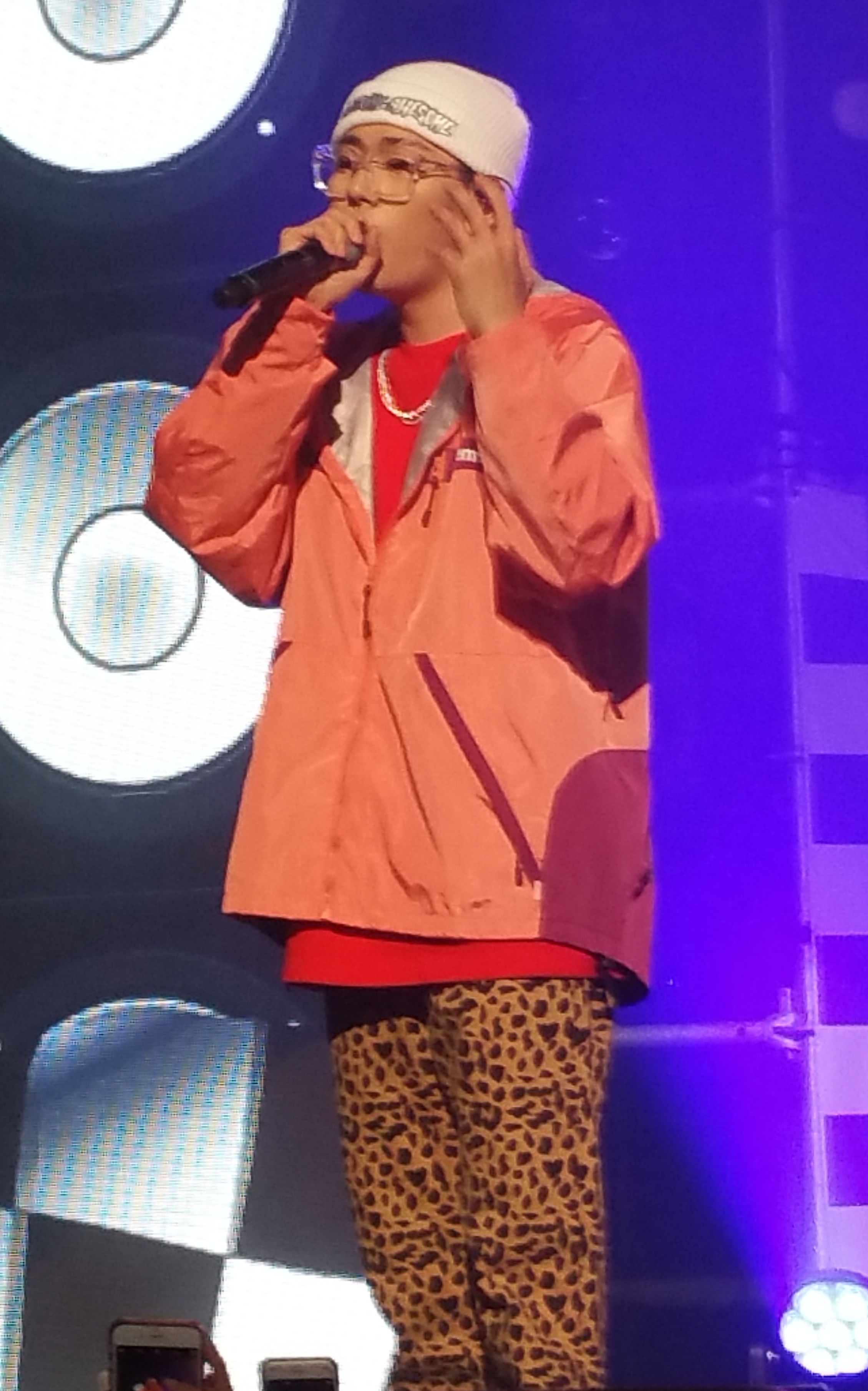 Zico performing at Monster Concert #5, Yes24 Live Hall 예스24 라이브홀, Gwangjang-dong, Gwangjin-gu, Seoul.